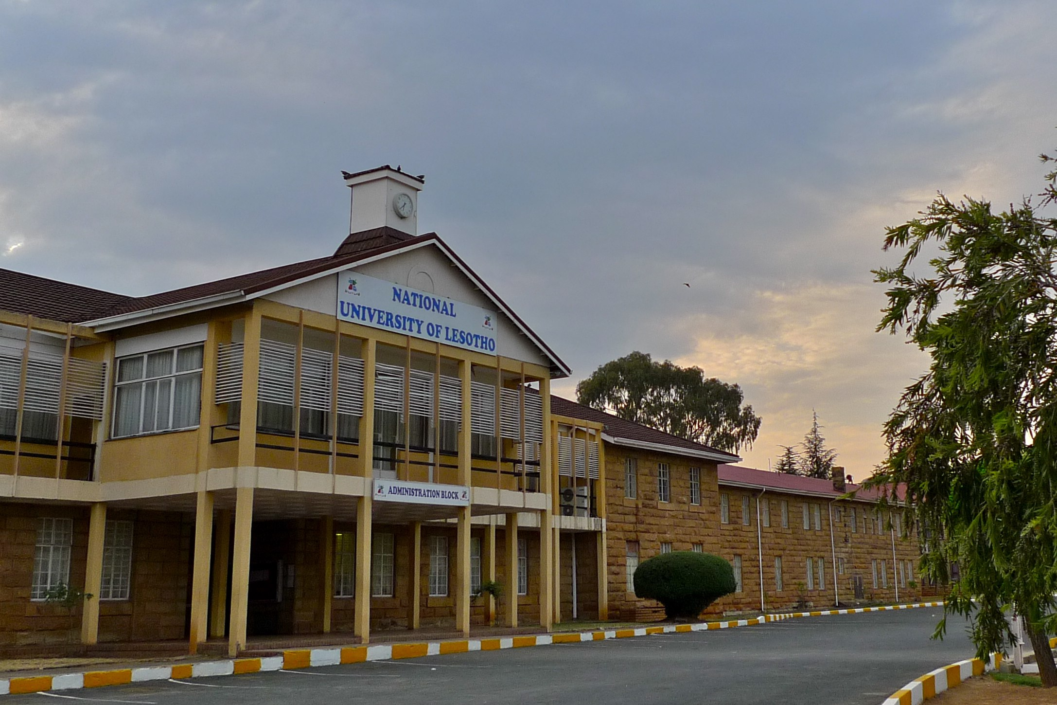 National University of Lesotho Administration Block